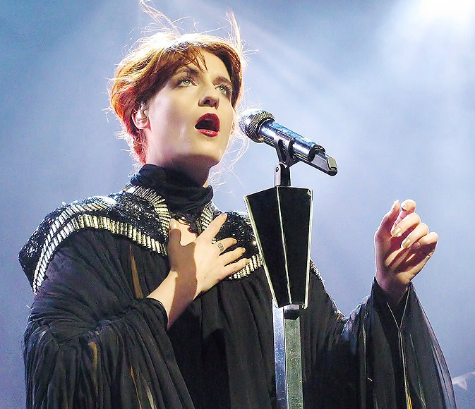 Florence and the Machine performing live at Borgata Event Center in Atlantic City, NJ on May 12, 2012.